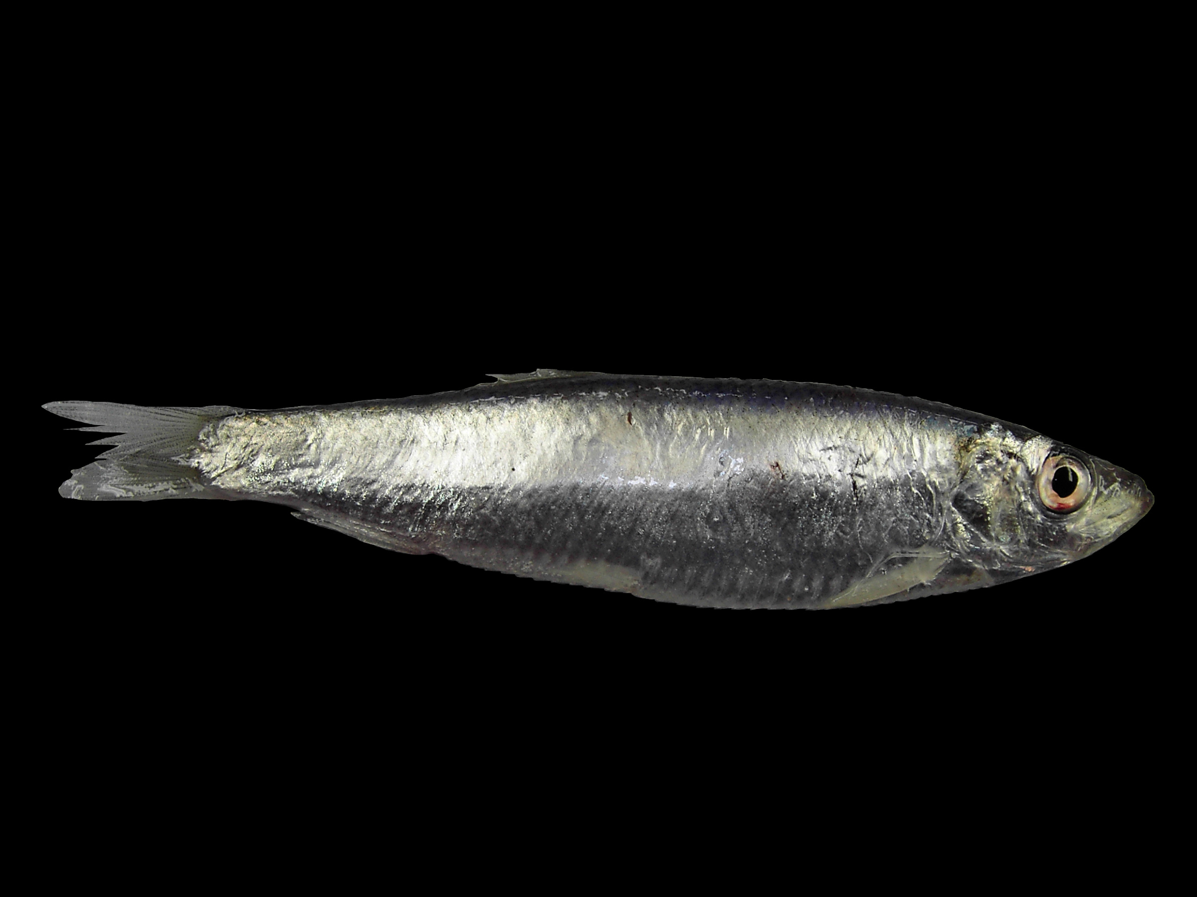 Sprat from the Southern North Sea.